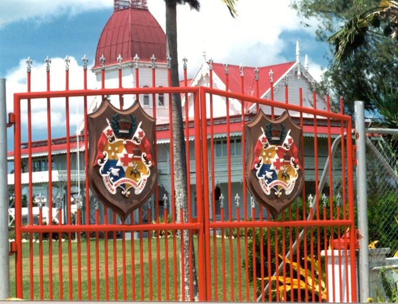 Royal Palace of Tonga, in Nuku'alofa.